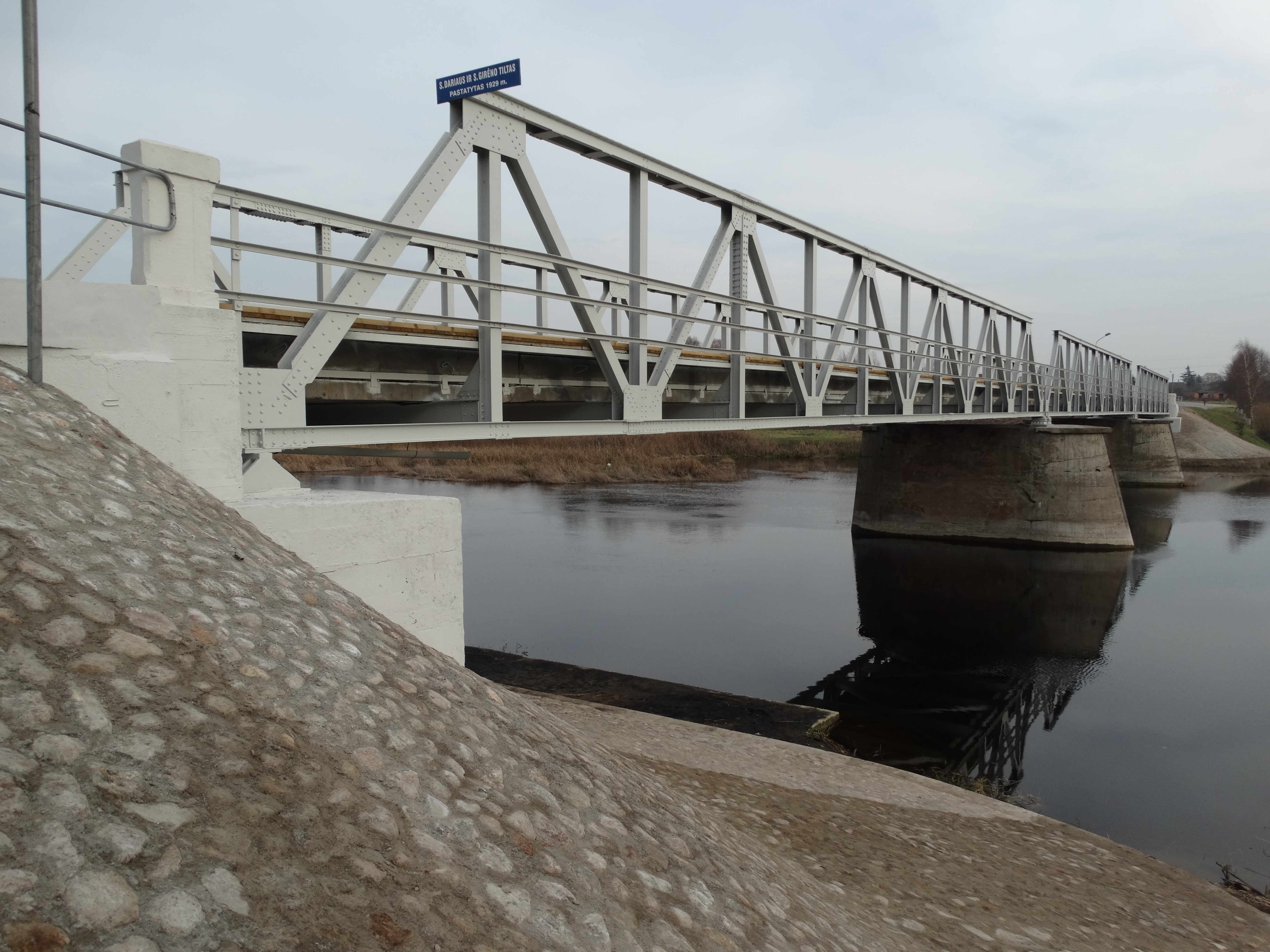 Bridge on Mūša River, Saločiai, Pasvalys district, Lithuania